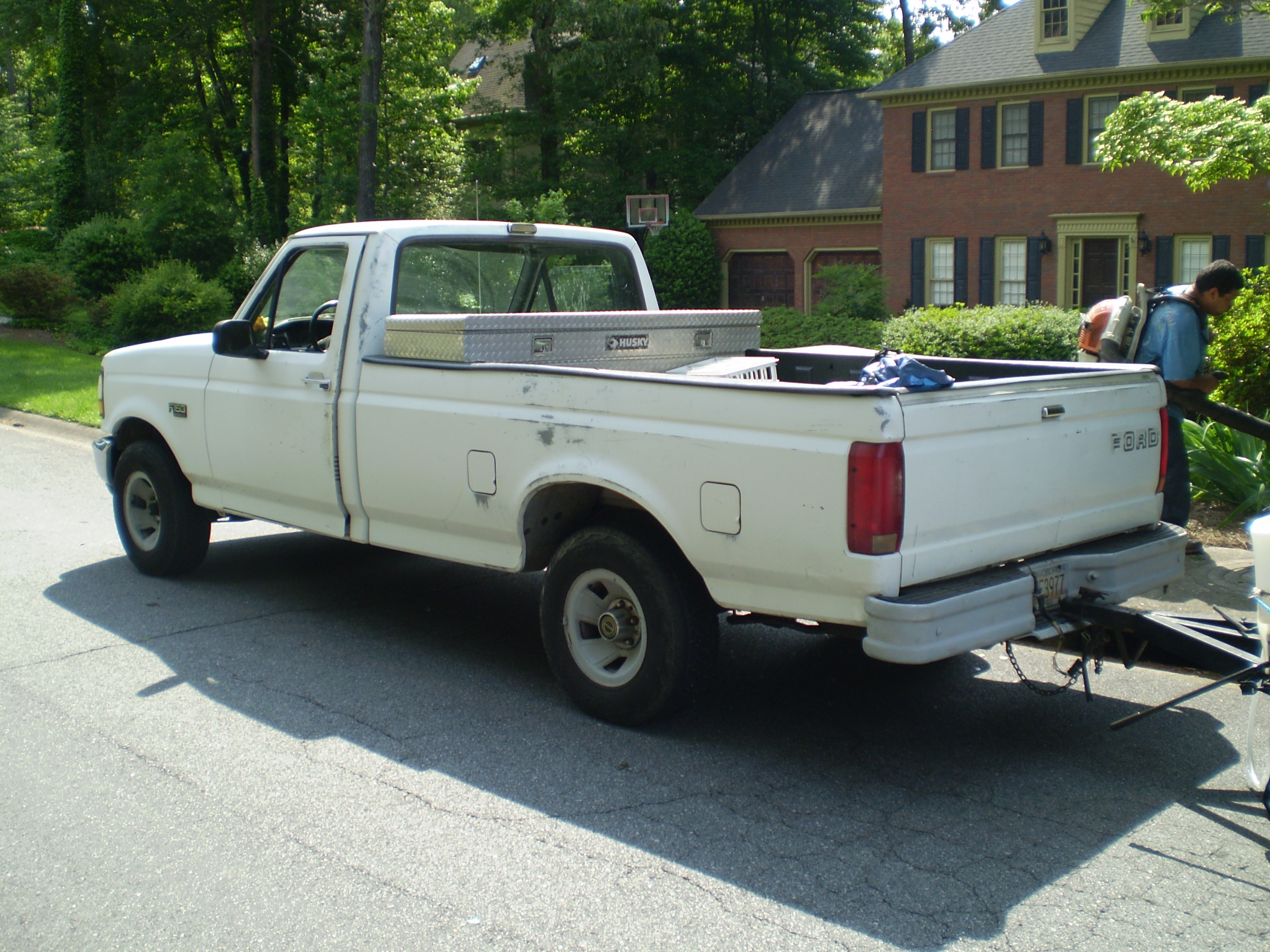 1992 Ford F-150 Custom Regular Cab/Long Bed (reverse) Final Assembly Location: Ford River Rouge Complex, Dearborn, Michigan, USA. Verified by VIN information.